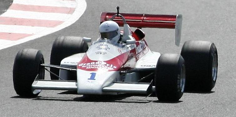 The Arrows A6 at the 2008 Silverstone Classic race meeting.